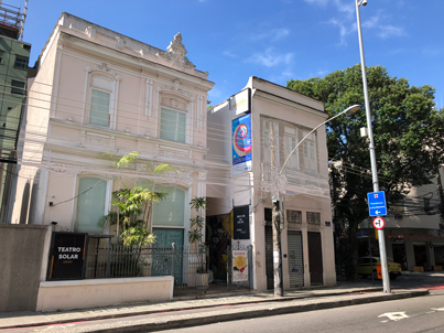 Street View